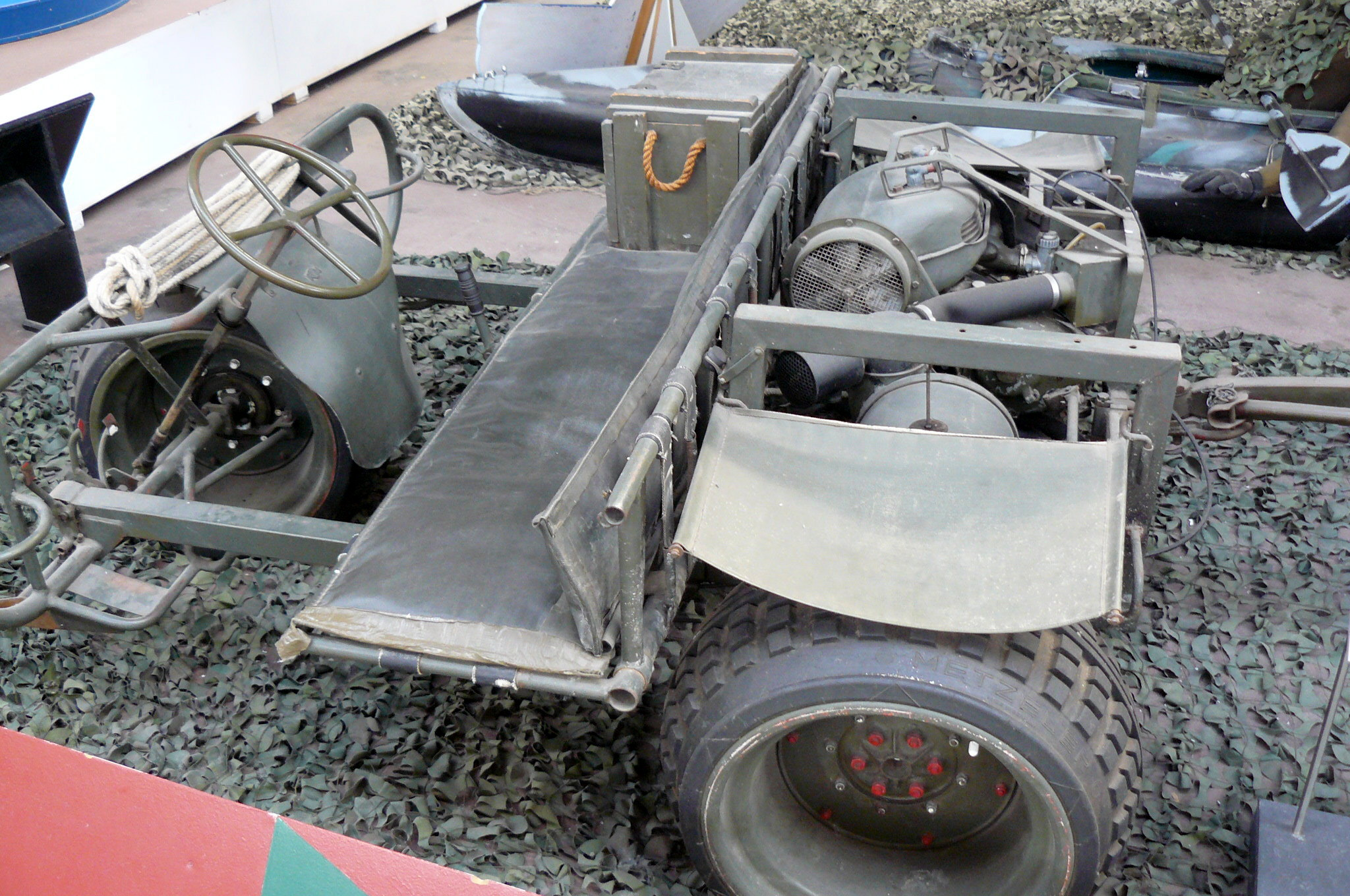 Side view of the AS 24 incuding the two cilinder engine. Seen in the Royal Museum of the Armed Forces and Military History, Brussels.